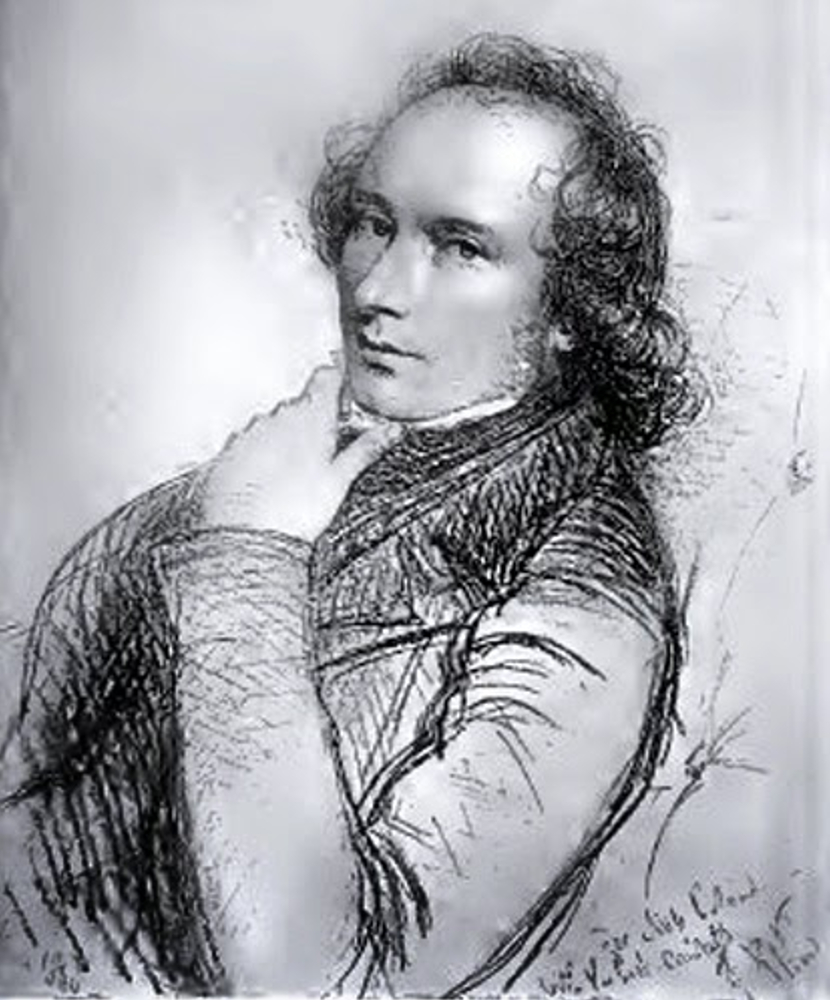 William Stokes (1804 - 1878)